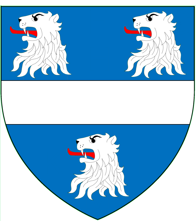 Azure a Fess between three Lions' Heads erased Argent